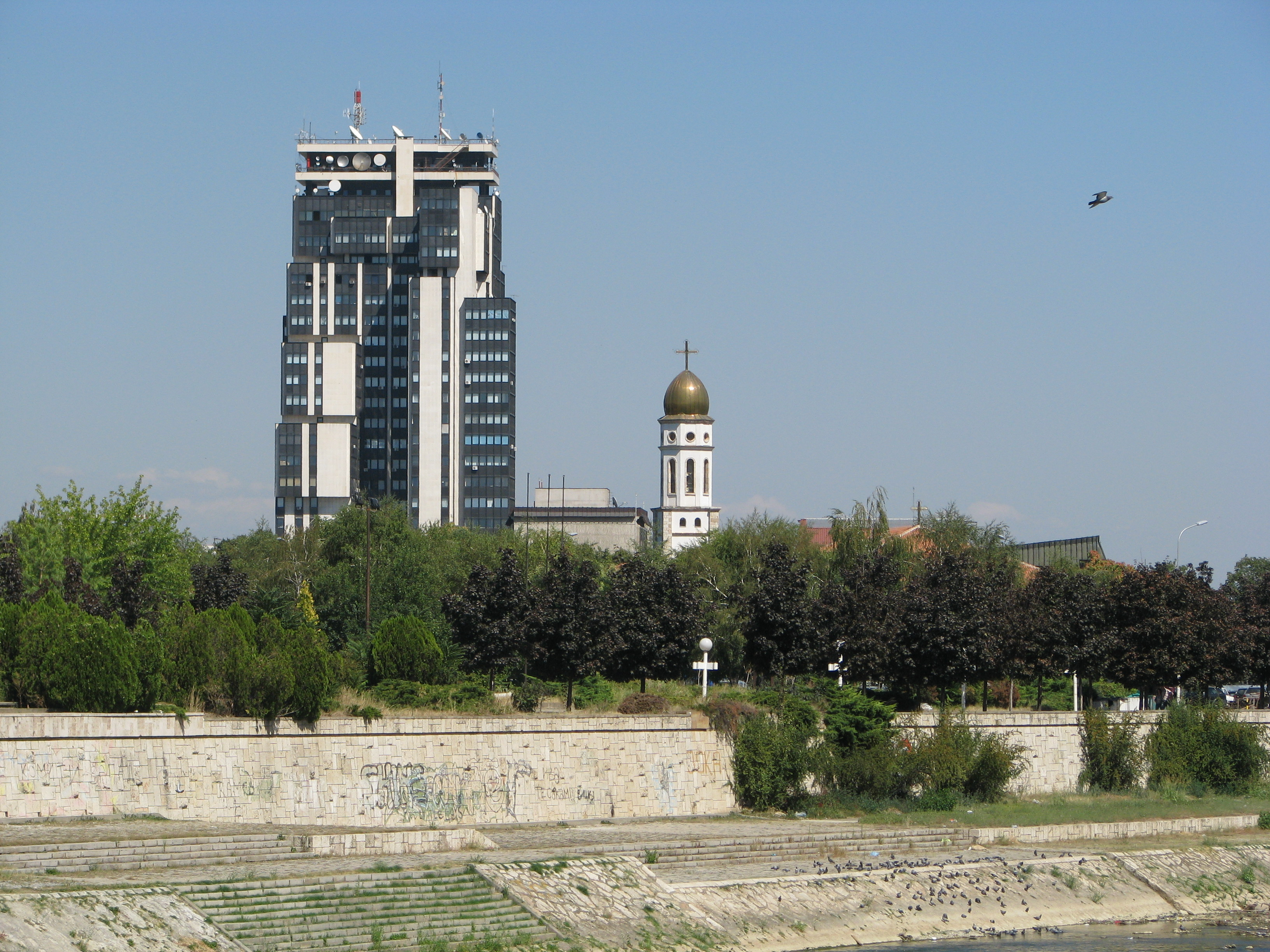 Building of the Macedonian national television in Skopje